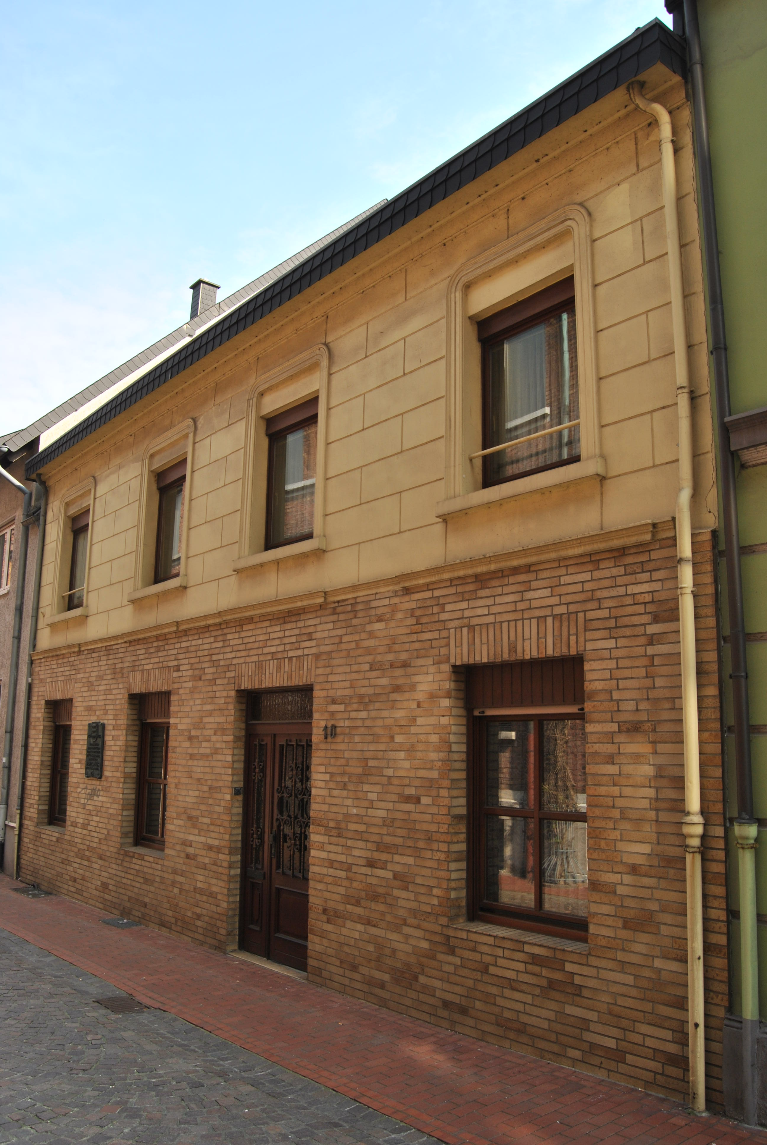 Rheinberg (North Rhine-Westphalia, Germany) – house Zu den drei Fischen, birthplace of the German scholar, doctor and important book collector Amplonius Rating de Berka This photograph was taken with a Nikon D3000.